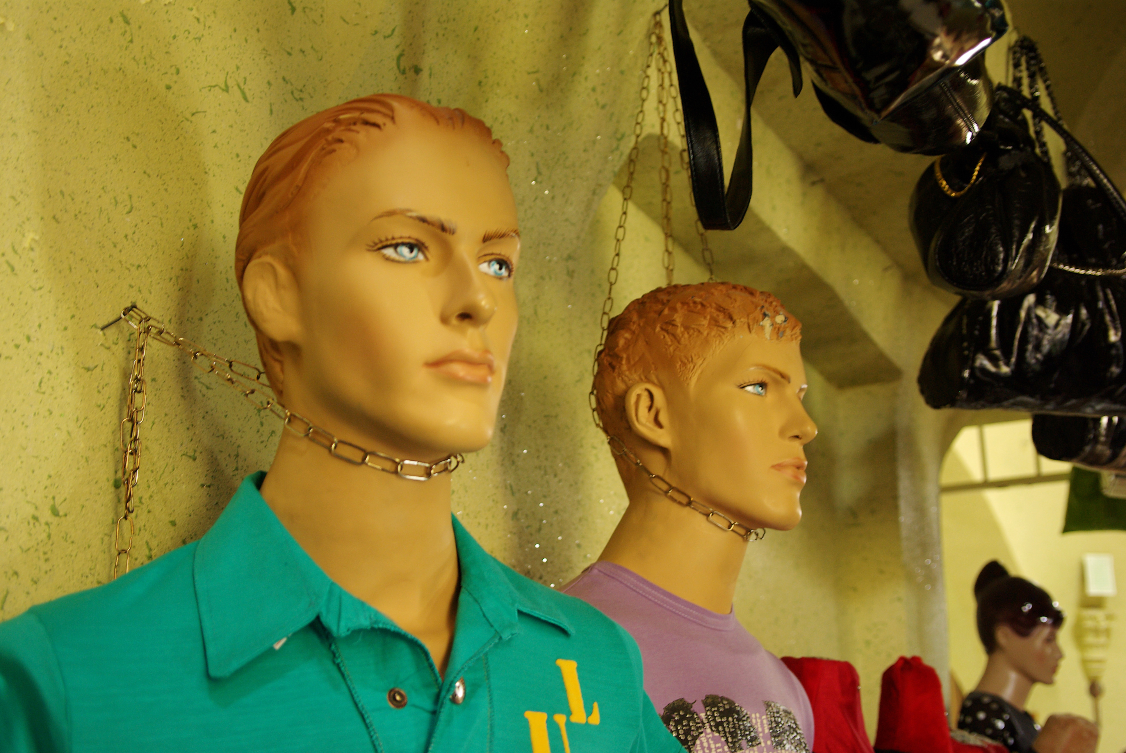 Chained mannequins in the bazaar of Kashan, Iran